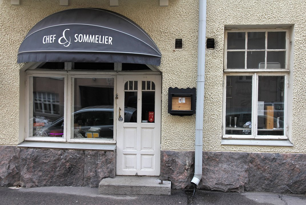 Restaurant Chef et Sommelier, Helsinki, Finland.